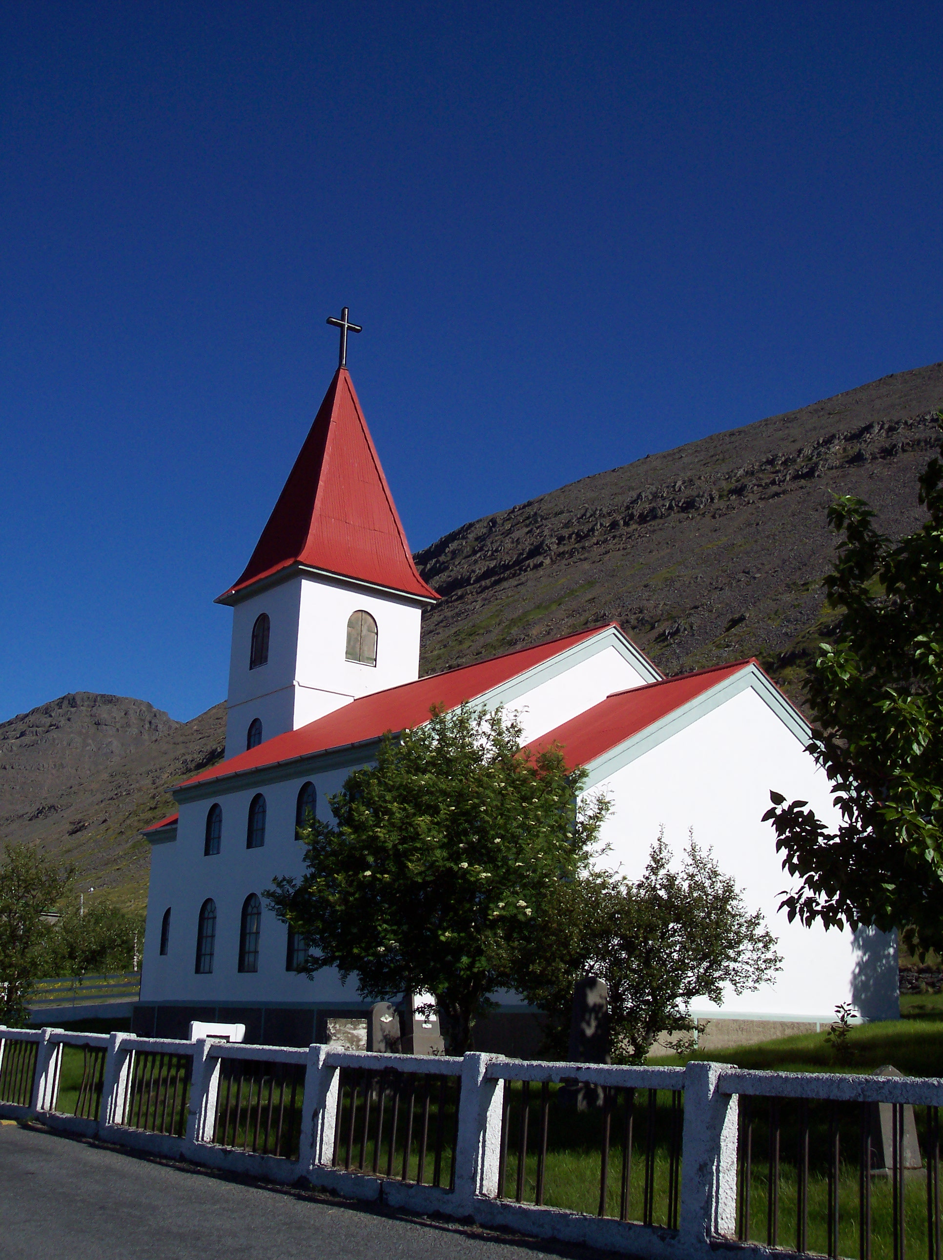 The church of Patreksfjörður, Vesturbyggð, Iceland